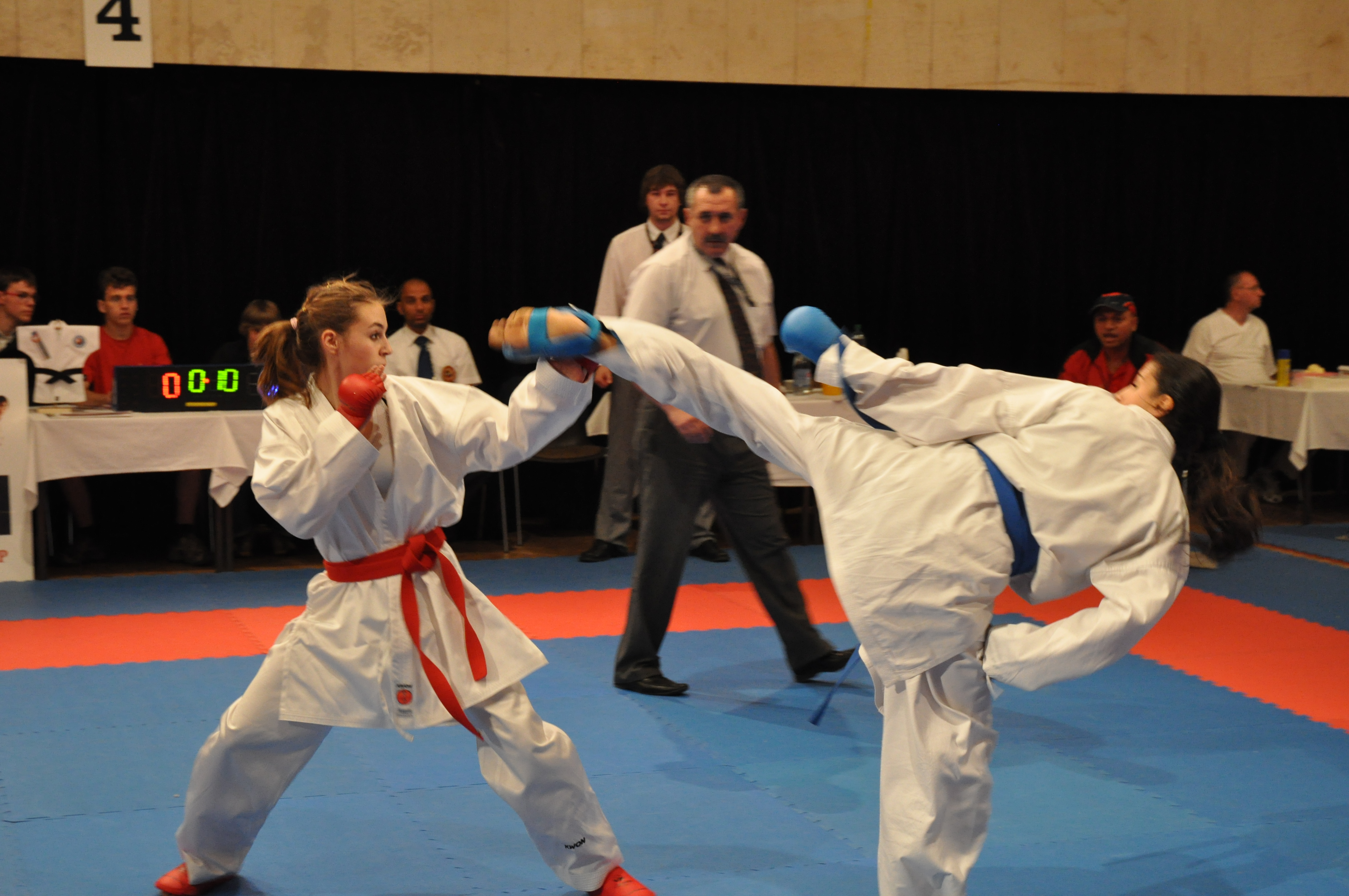 foto of Grand Prix Hradec Králové